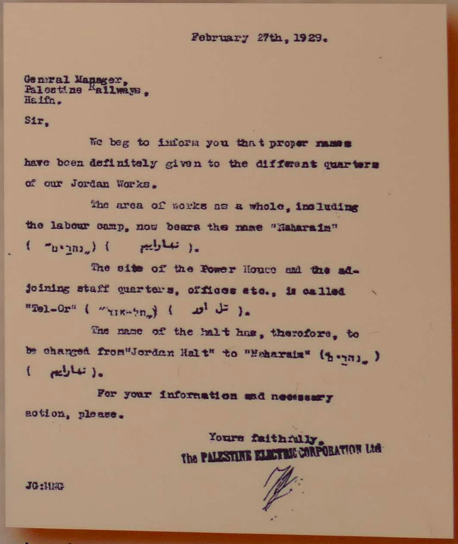 Palestine Electric Corporation letter regarding the names of Tel Or and Naharaim